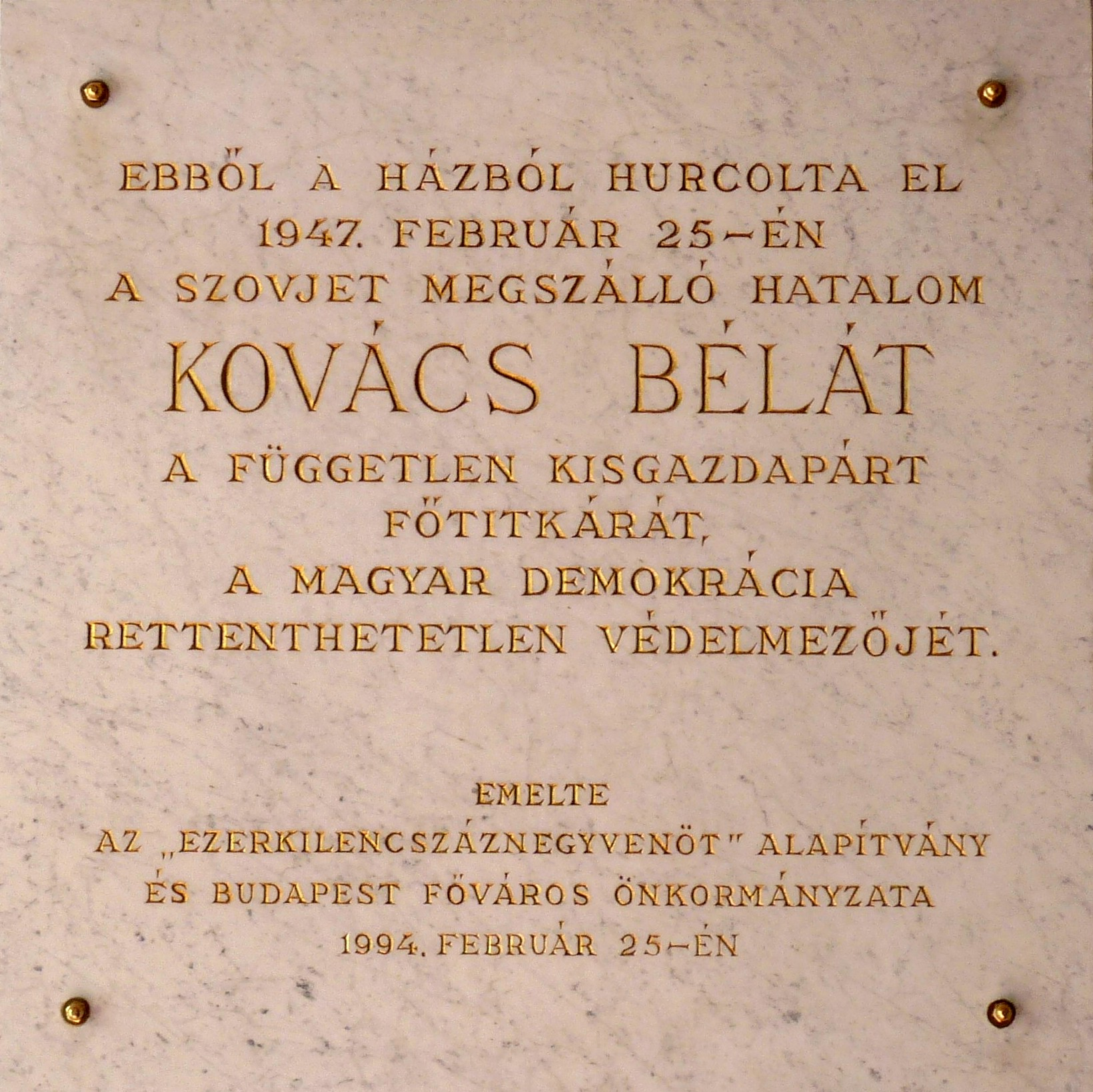 Commemorative plaque to Mr. Béla Kovács (1908–1959) Hungarian politician. It is affixed in the doorway of the building where he was arrested by the authorities of the Soviet State Security in 1947. (Budapest, District V, Váci Street Nr 54).